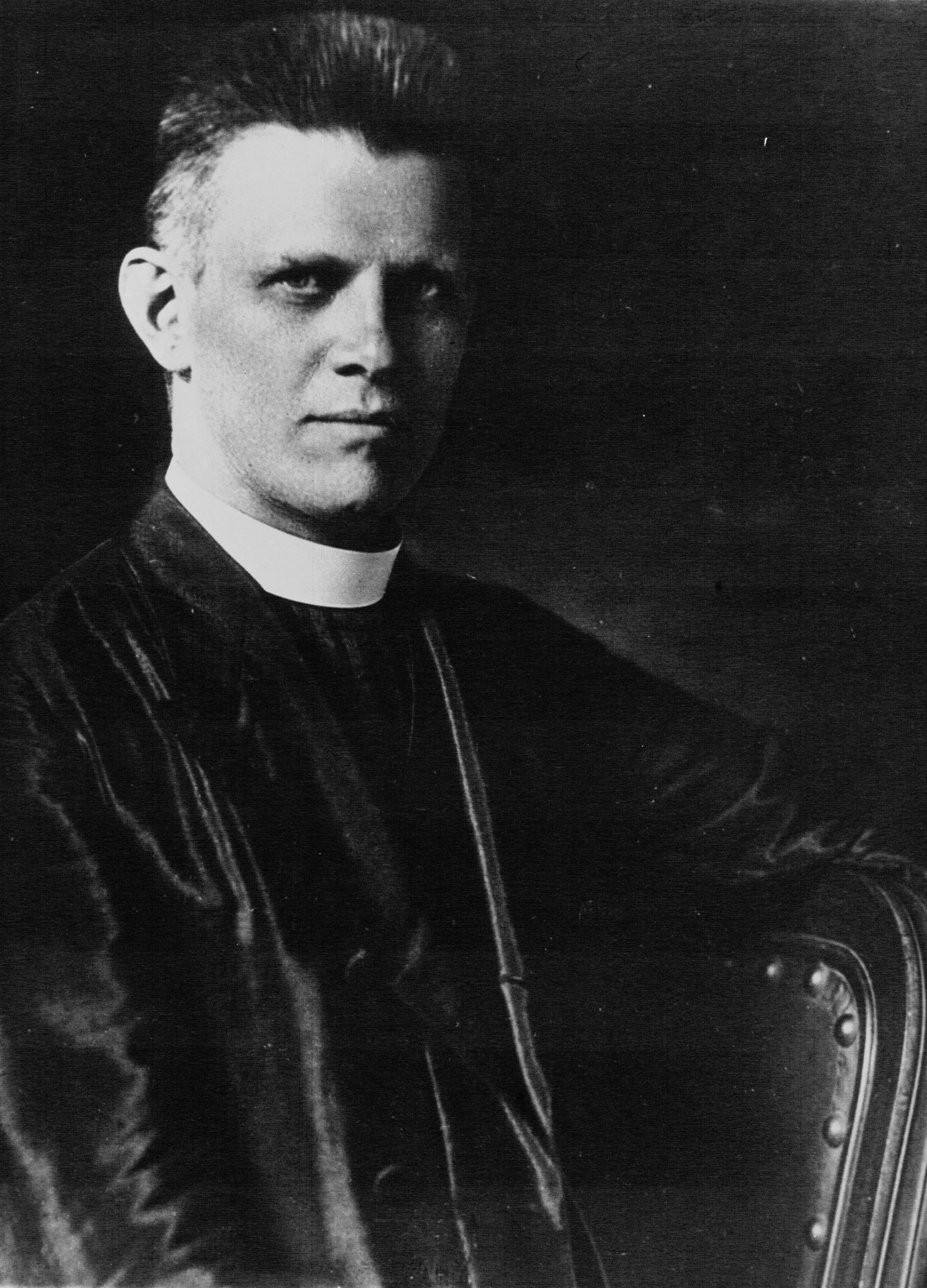 Archbishop of Vienna Theodor Innitzer (1875-1955).